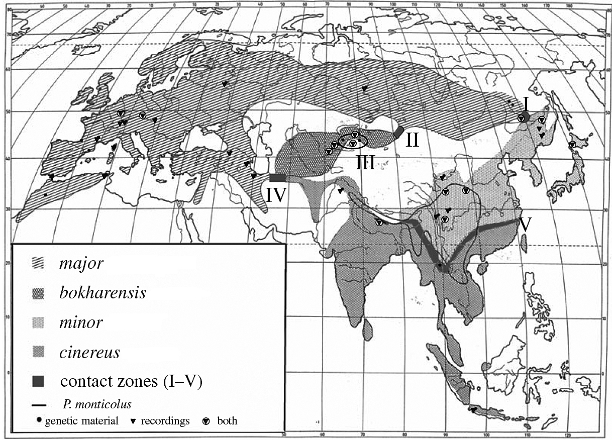 Original caption: Fig. 5. Distribution of the component species of the great tit superspecies (Parus) and their zones of secondary contact. Different shading indicates the areas of P. majorsensu stricto (major and bokharensis Sektors, P. minor and P. cinereus and of P. monticolus (line only). Zones of contact and (restricted) hybridization are: – I. middle Amur valley, E Siberia (P. majorsensu stricto and P. minor); – II. SW Mongolia, Bulugun valley (major Sektor and bokharensis Sektor of P. majorsensu stricto); – III. Kyrgystan and Kazakhstan (man-made sympatry of major Sektor and bokharensis Sektor of P. majorsensu stricto), – IV. trans-Caspian area of south Turkmenistan and north Iran (major Sektor and bokharensis Sektor of P. majorsensu stricto and P. cinereus). – V. South China and parts of Indochina (P. minor and P. cinereus, hybridization resulting in P. minor ‘commixtus’,full extent of hybridization unknown). – Slightly modified from Päckert et al. (2005). Parus major Parus bokharensis = Parus major bokharensis Parus minor Parus cinereus Parus monticolus